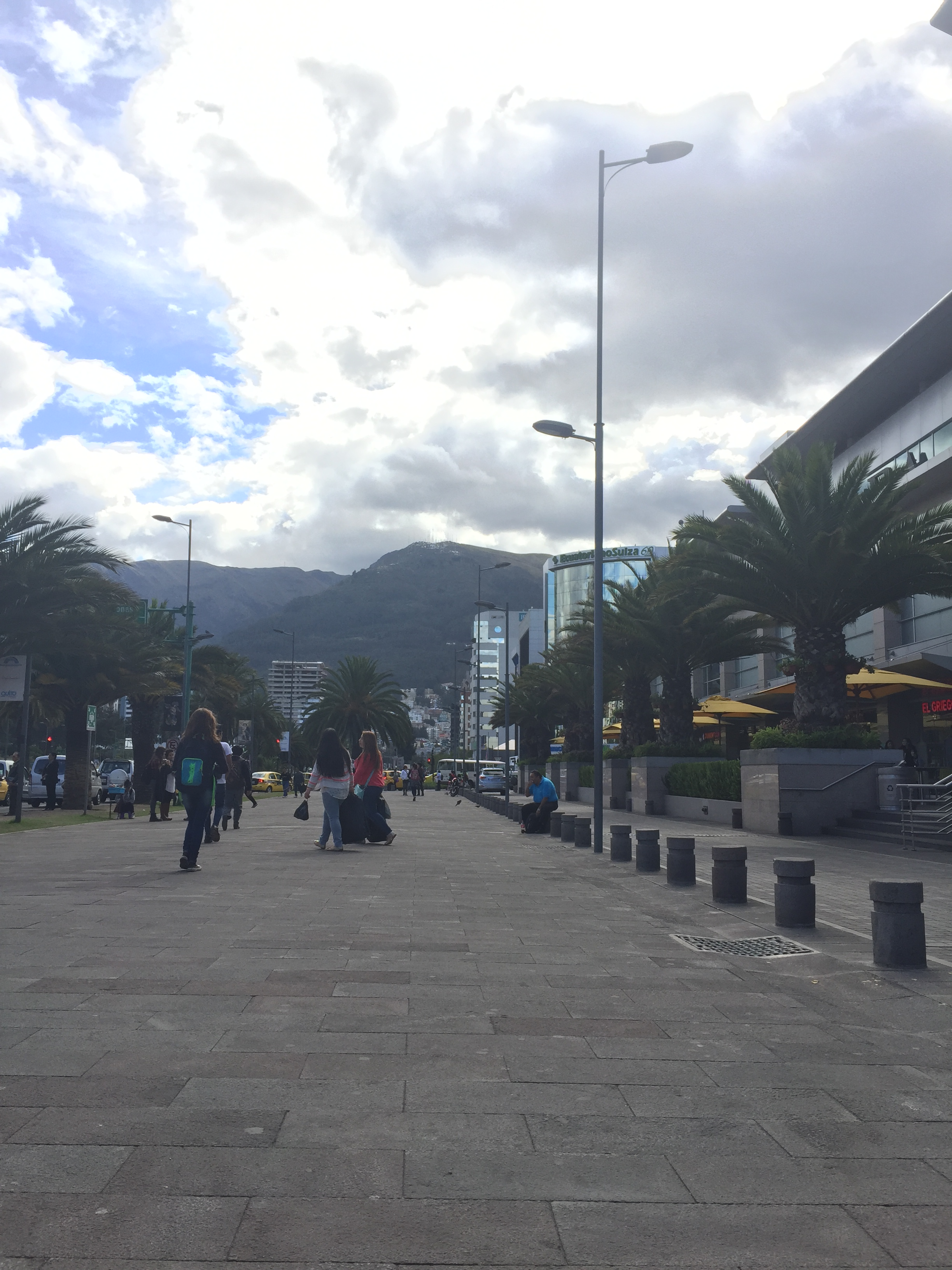 Bulevar Naciones Unidas (United Nations Boulevard) - Quito